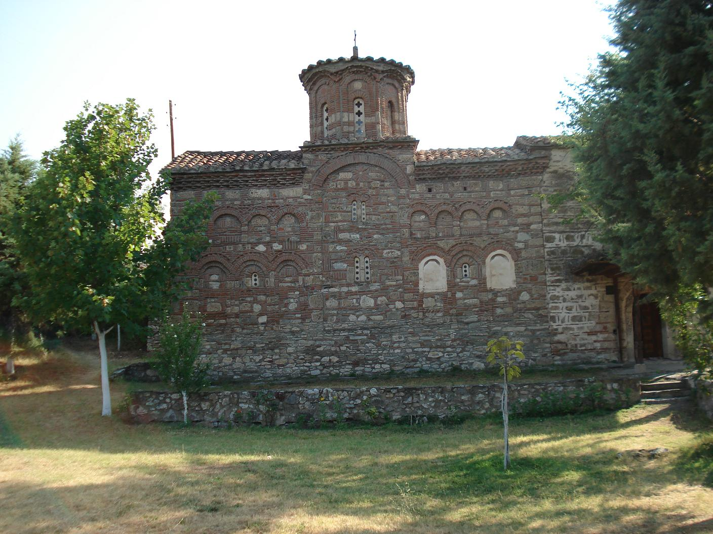 Church St. Georgy (sveti Gjorgji, Свети Ѓорѓи) on lake Tikves